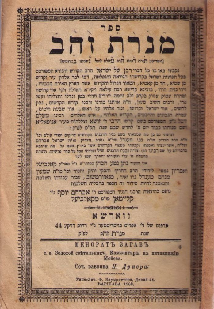 Title page of Menorat Zahav by Zusha of Hanipol, published in Warsaw, 1902